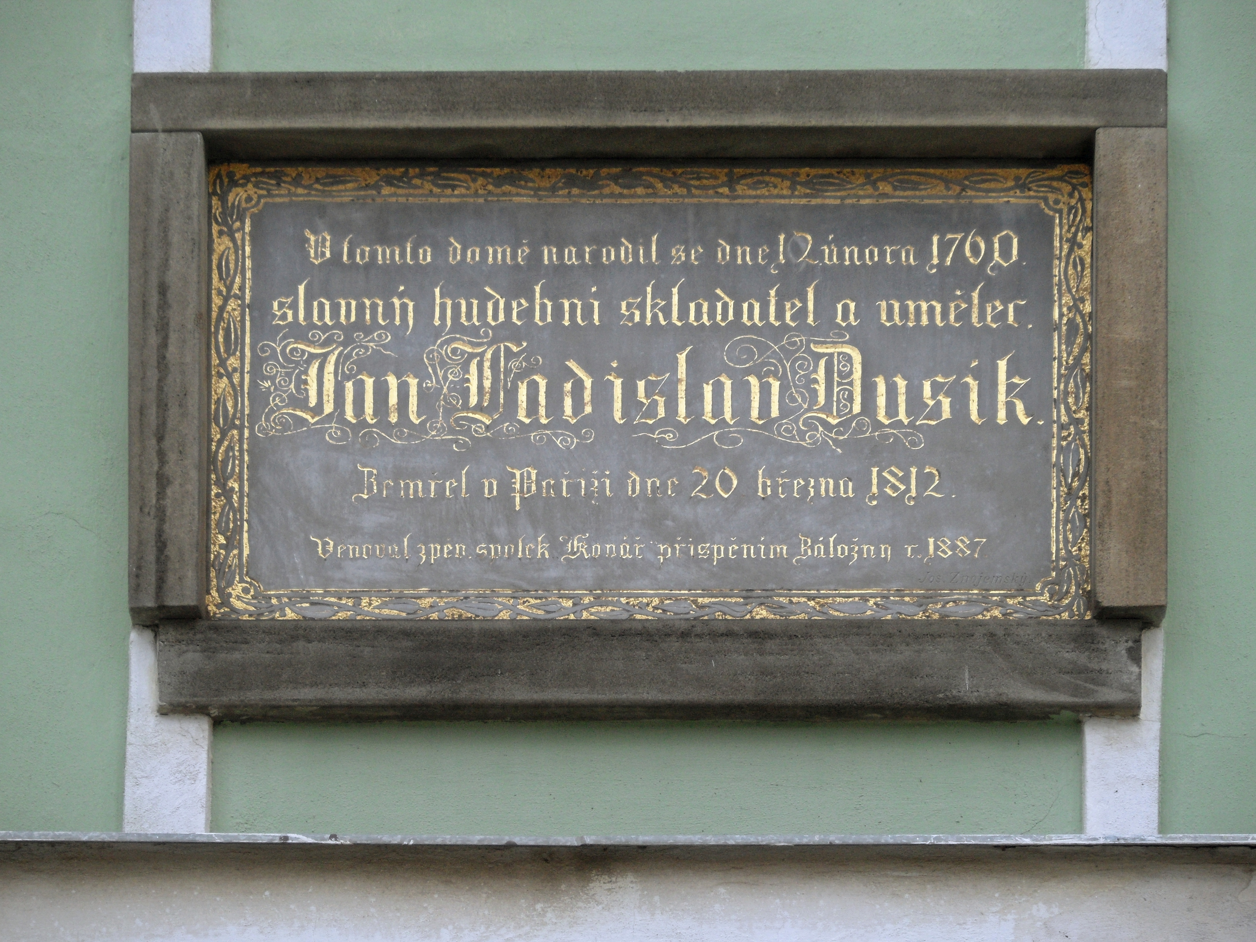 Čáslav, pianist, composer and pedagogue Jan Ladislav Dusík: Memorial Plaque (nám. Jana Žižky z Trocnova 171/48). Kutná Hora District, the Czech Republic.